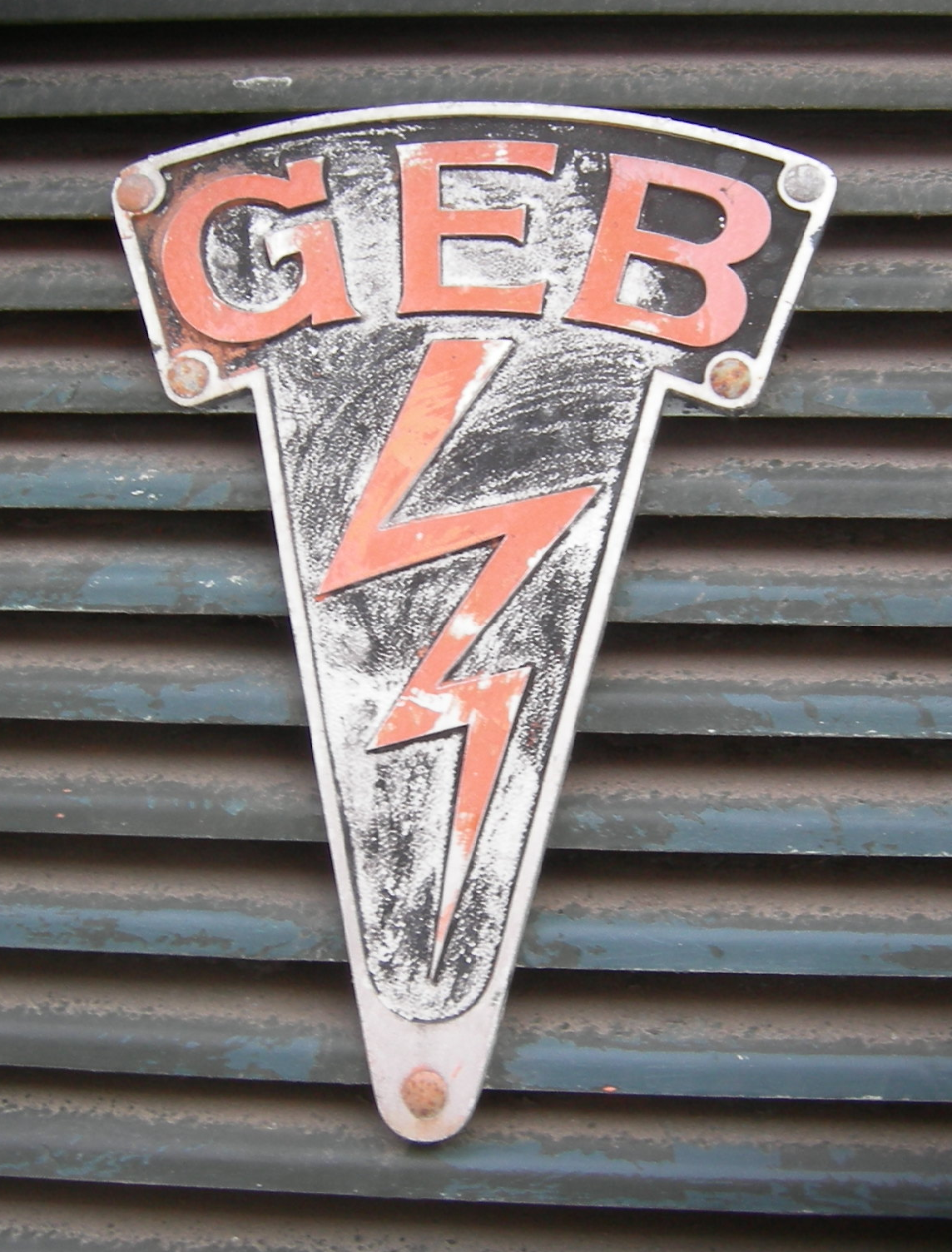 Emblem of the Gemeente-energiebedrijf (Amsterdam) (the Municipal Energy Concern of Amsterdam)